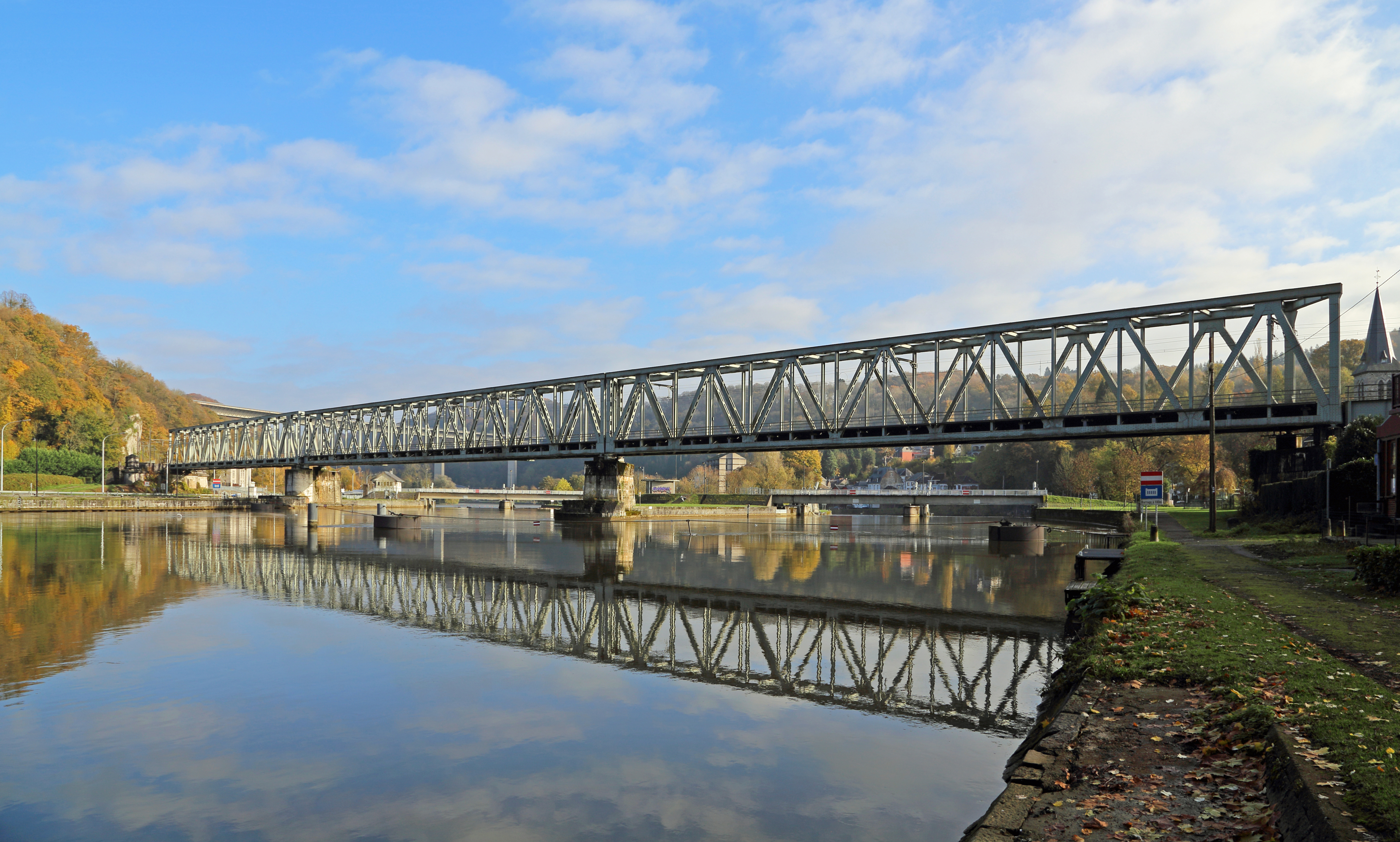 Anseremme (Dinant, Belgium): railway bridge over the Meuse river